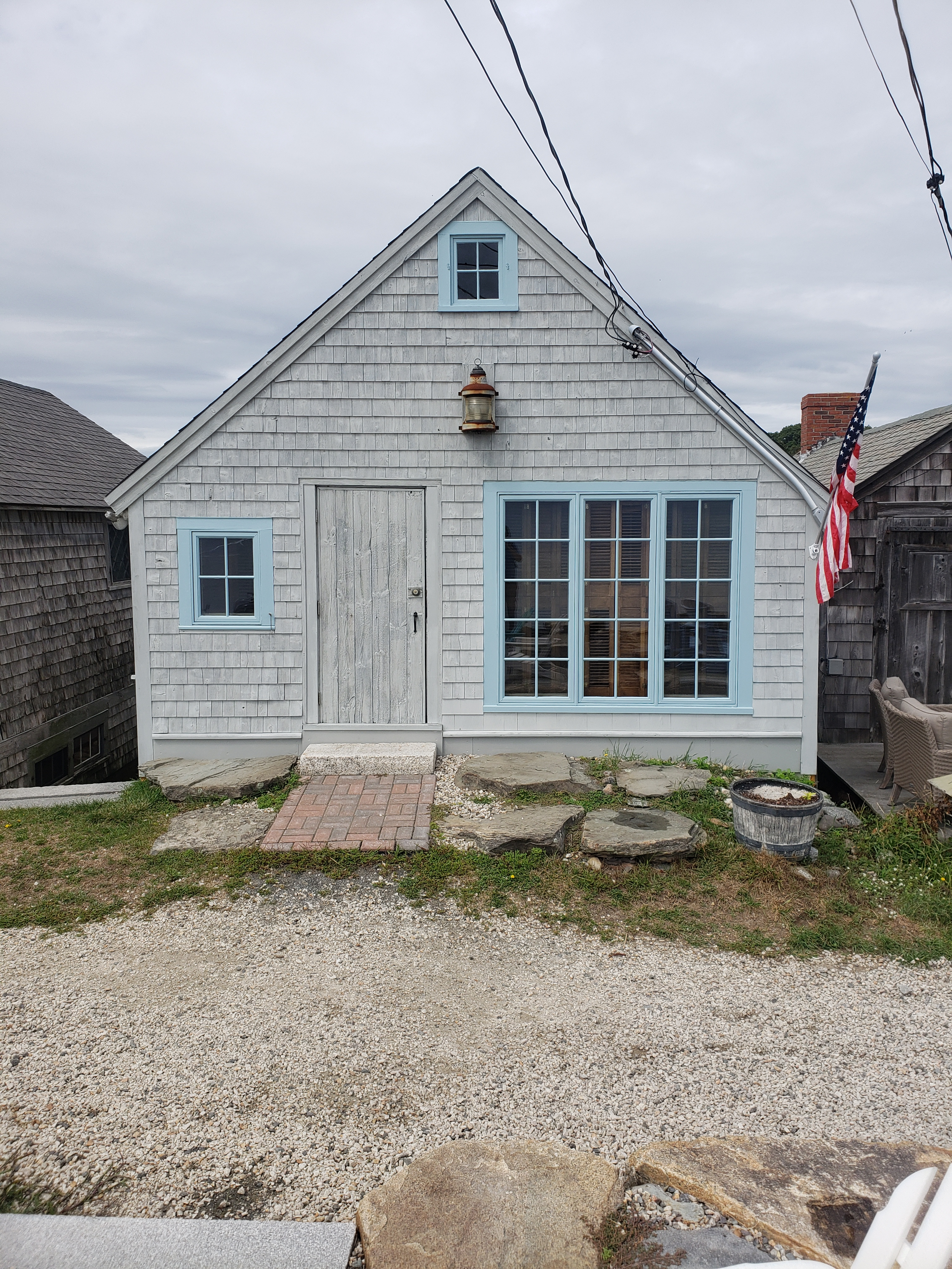 This is one of the historic fish houses in the Little Boar's Head Historic District